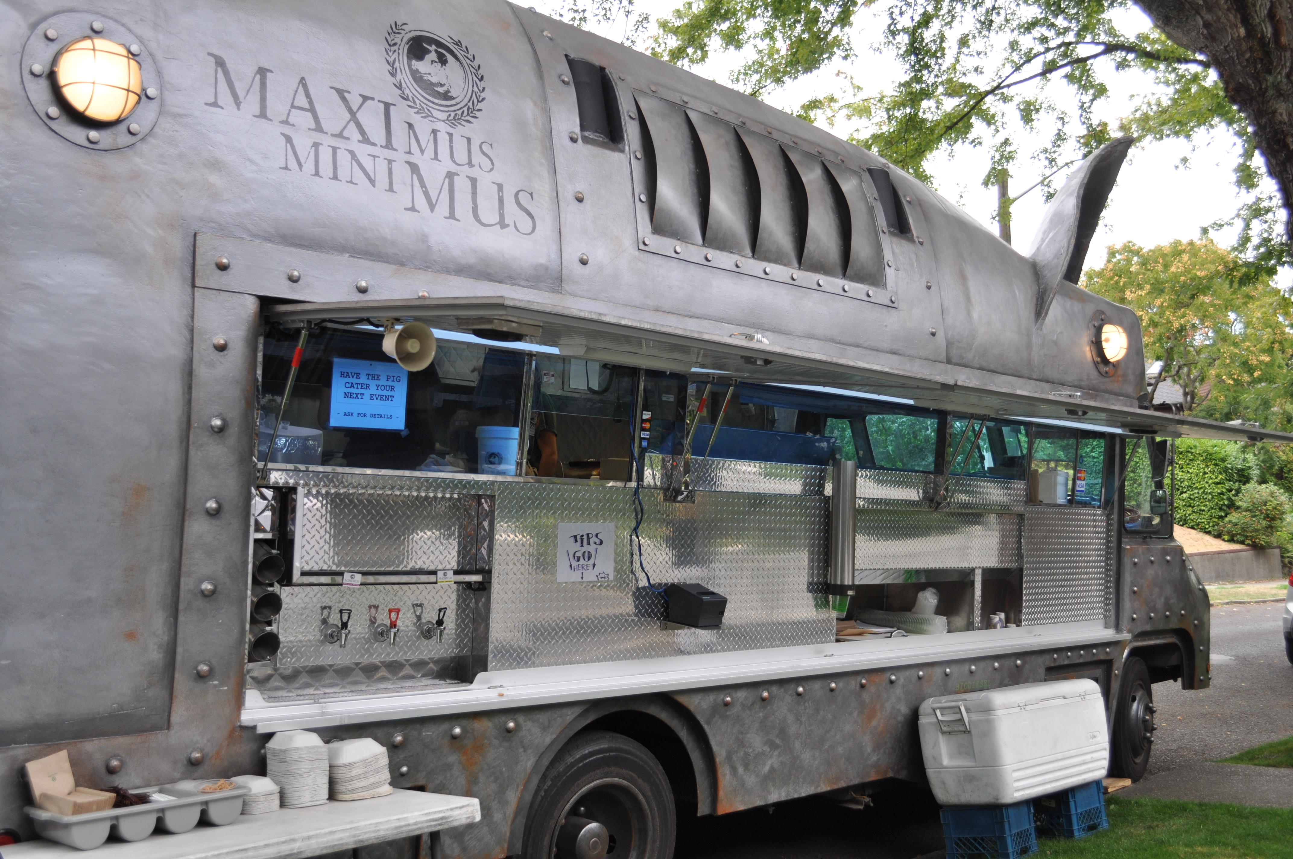 "Maximus Minimus", kitchen truck with a pork theme, parked in front of a house on 22nd Avenue E, Capitol Hill, Seattle, Washington, where it was catering an event.